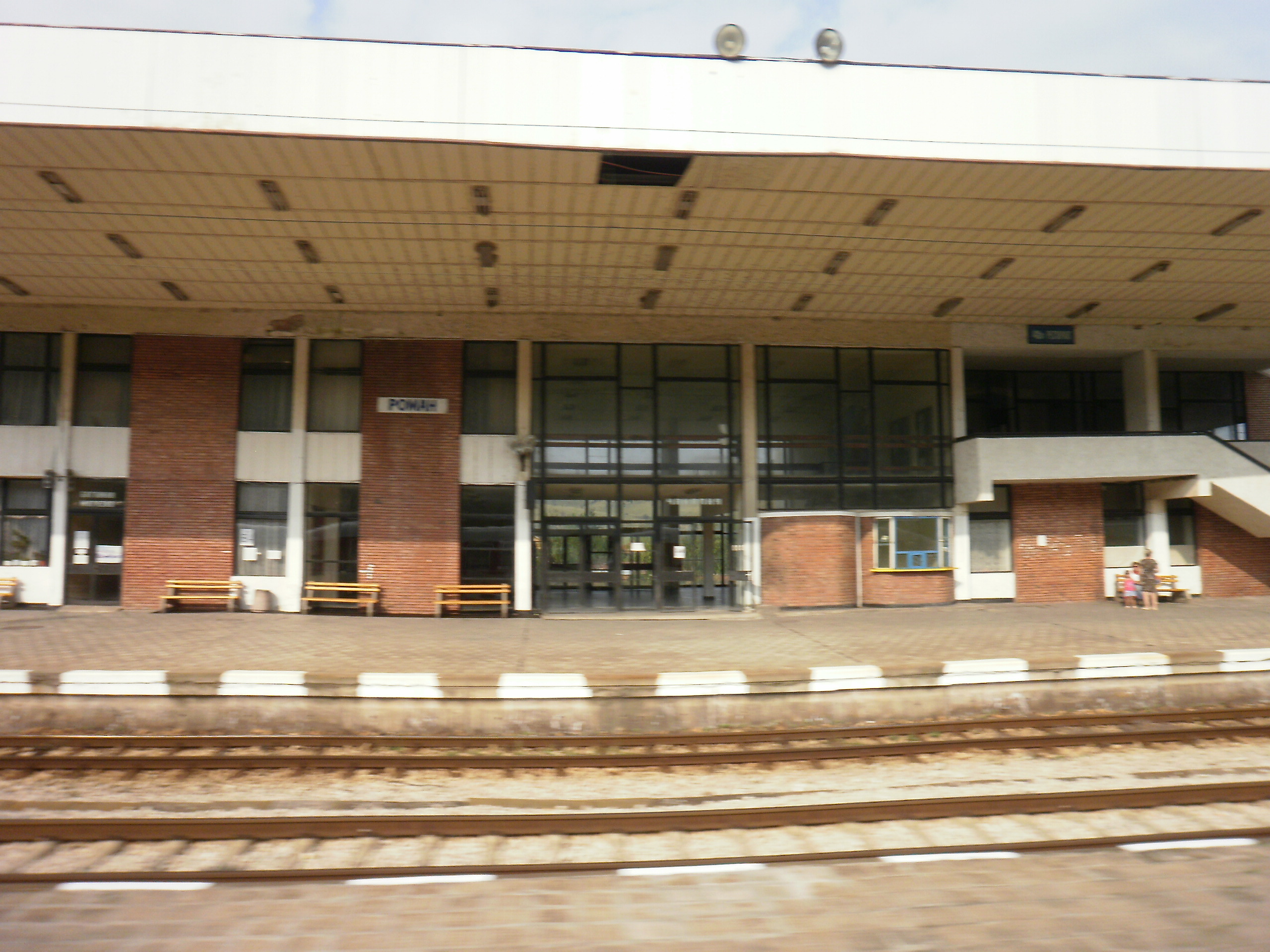 Railway station Roman, Bulgaria